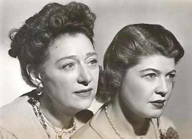 Anne Elstner and Vivian Smolen, the actors who played Stella Dallas and her daughter Laurel on the radio serial "Stella Dallas"